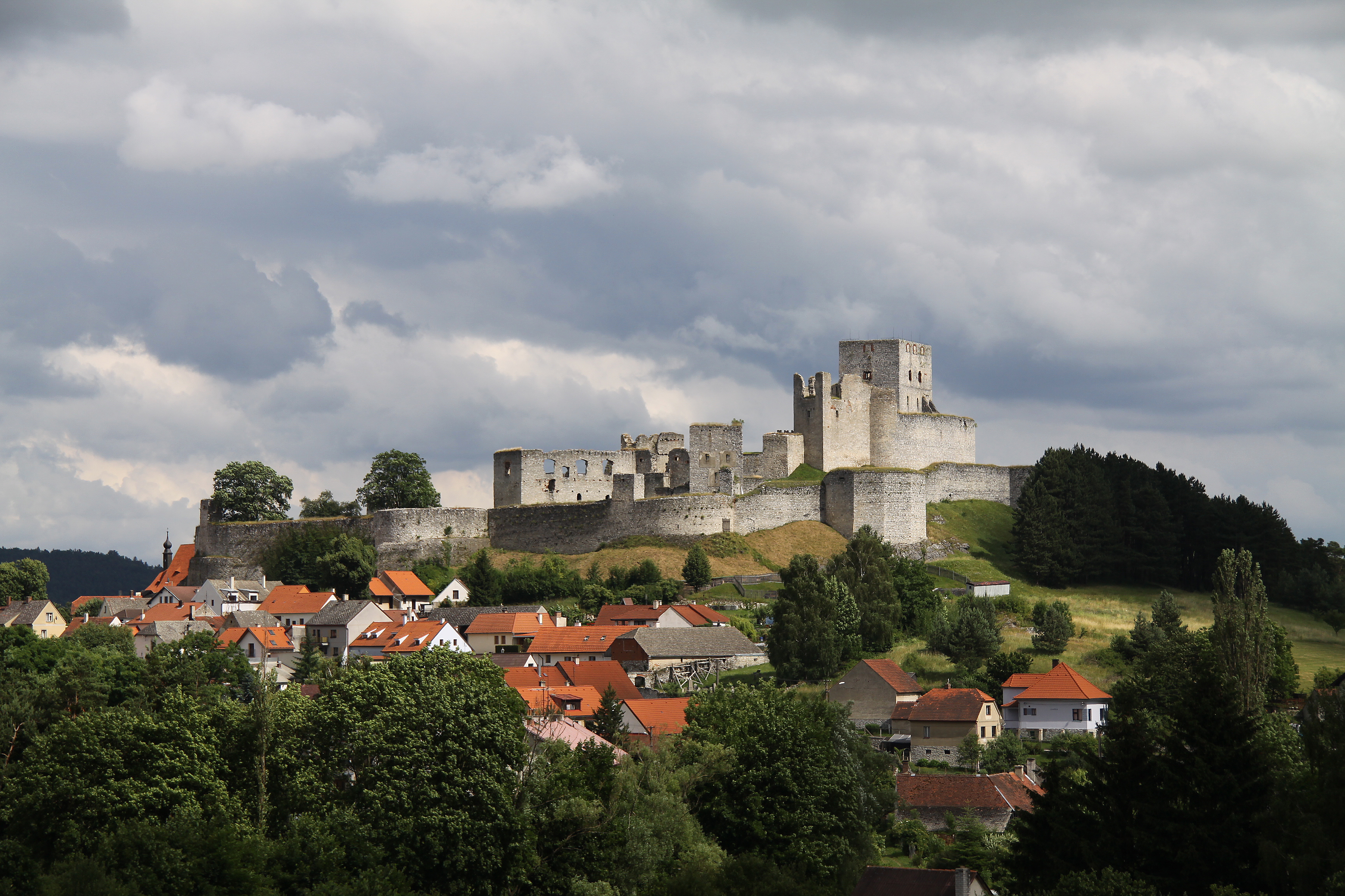 View of the Rabí castle and Rabí village in Klatovy District, Czech Republic